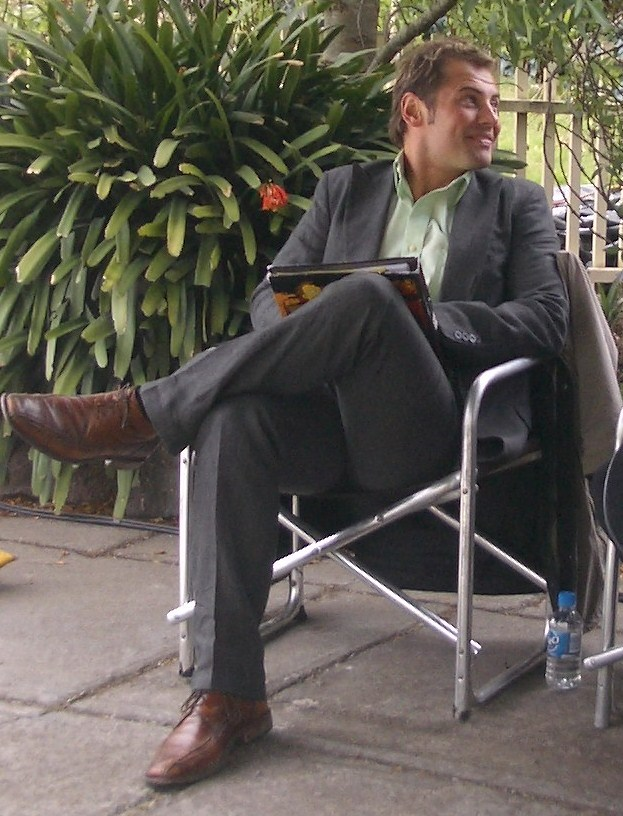 Daniel Macpherson on location for City Homicide, 2008